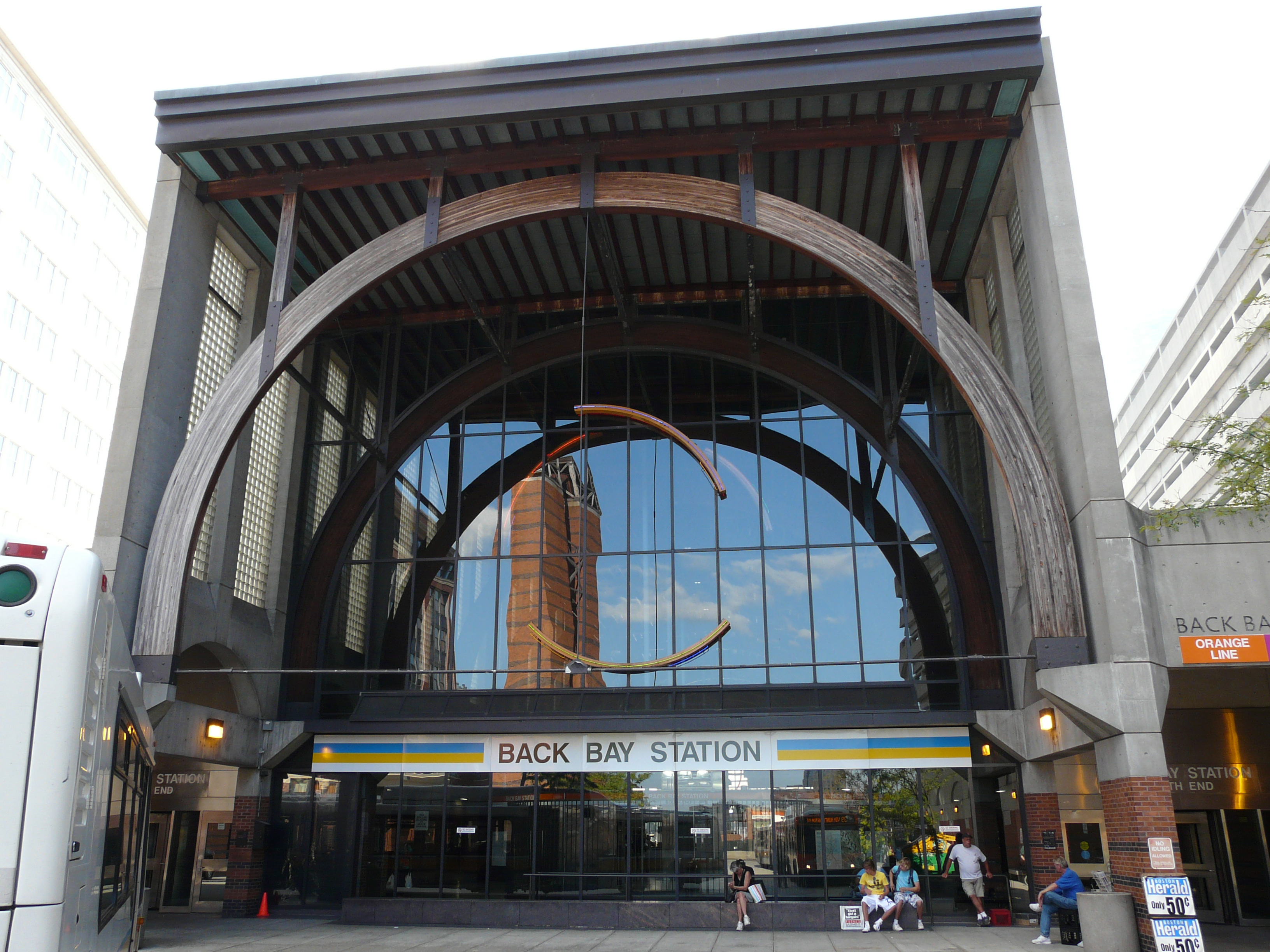 Facade of Back Bay Station in Boston